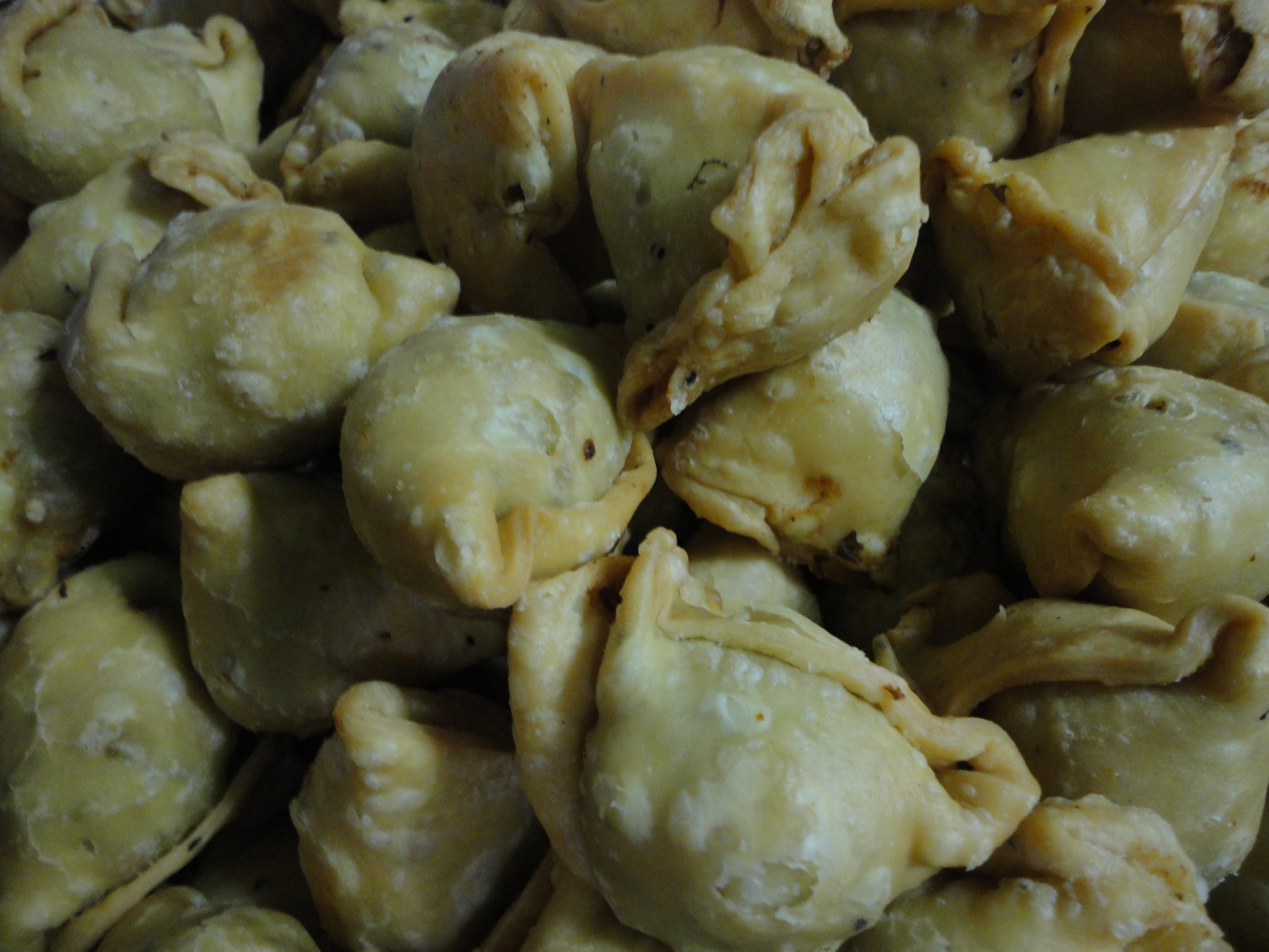 Singara, Bangladeshi Cuisine